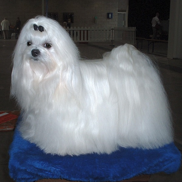 A "Vairette" Maltese at the Championship Dog Show, in Birmingham.